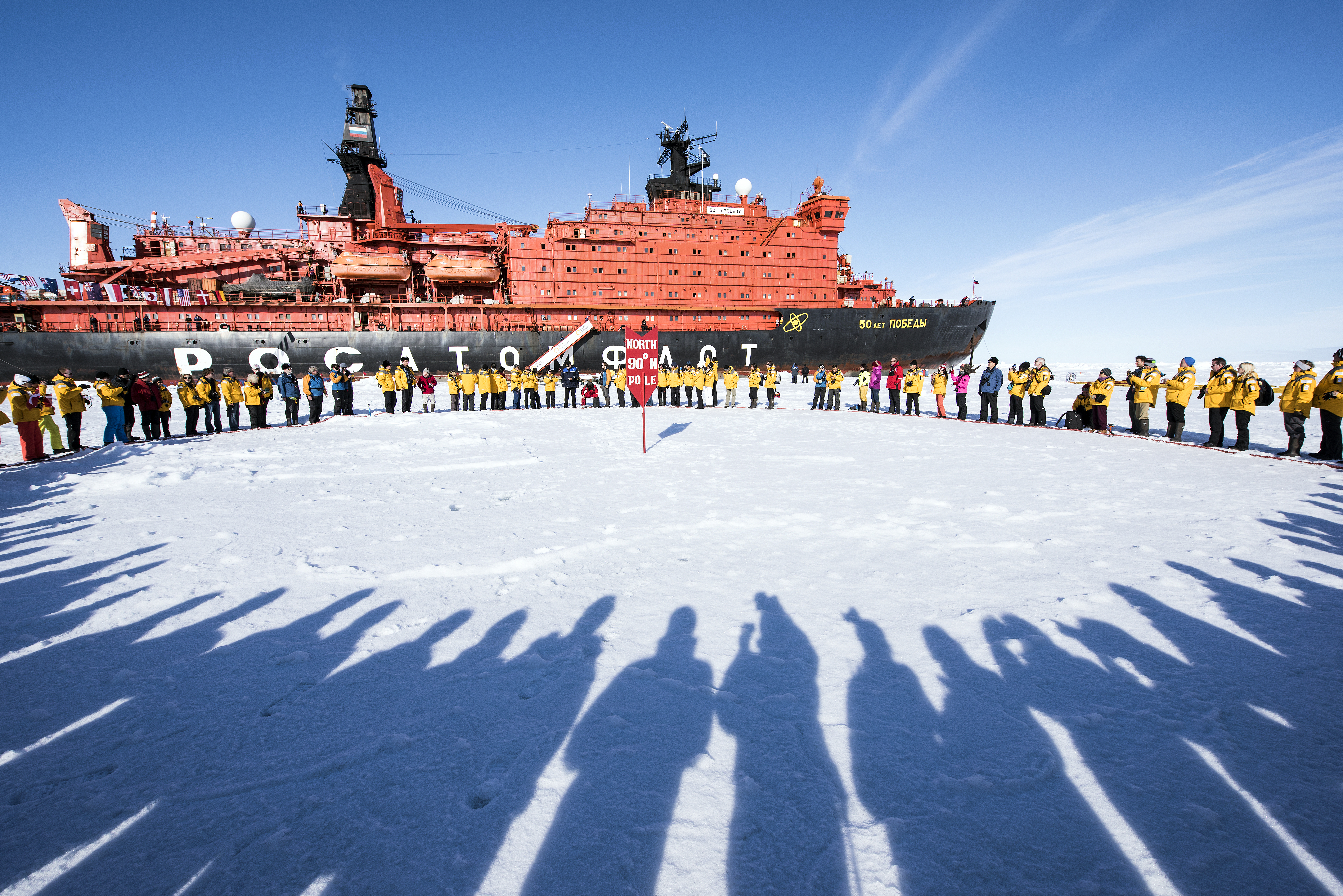 North Pole Keep